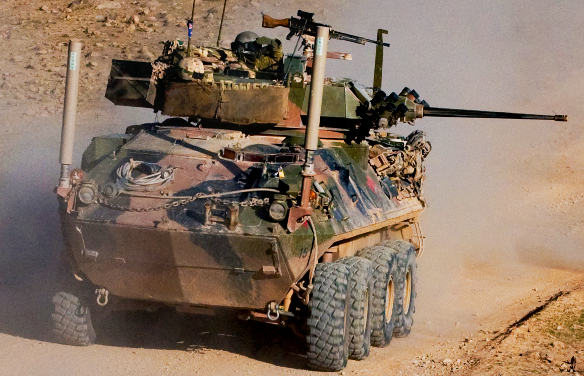 An Australian Service Light Armoured Vehicle drives through Tangi Valley, Afghanistan, March 29. The ASLAV is called The Red Rat Vehicle by the Taliban because of the red kangaroo painted on the side of the vehicle, said Australian Army Lt. McLeod Wood, a troop leader for 2nd Cavalry Regiment, Mentoring Task Force 2, Combined Team Uruzgan.